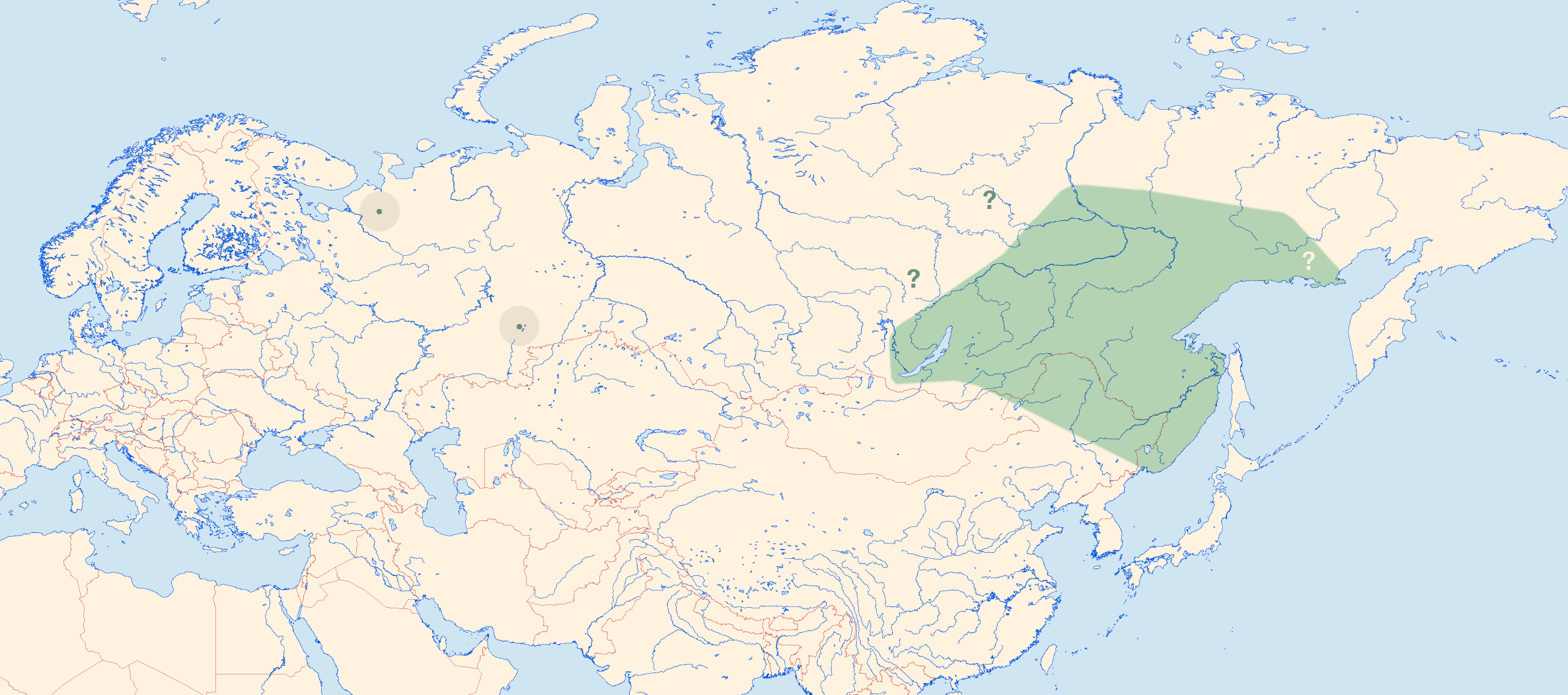 Distribution of Coenagrion glaciale. The data concerning the species' distribution are generally poor and the run of its limits is hypothetical. Data Source: Rafał Bernard, Bogusław Daraż: Relict occurrence of East Palaearctic dragonflies in northern European Russia, with first records of Coenagrion glaciale in Europe (Odonata: Coenagrionidae). International Journal of Odonatology, Volume 13, Issue 1, 2010